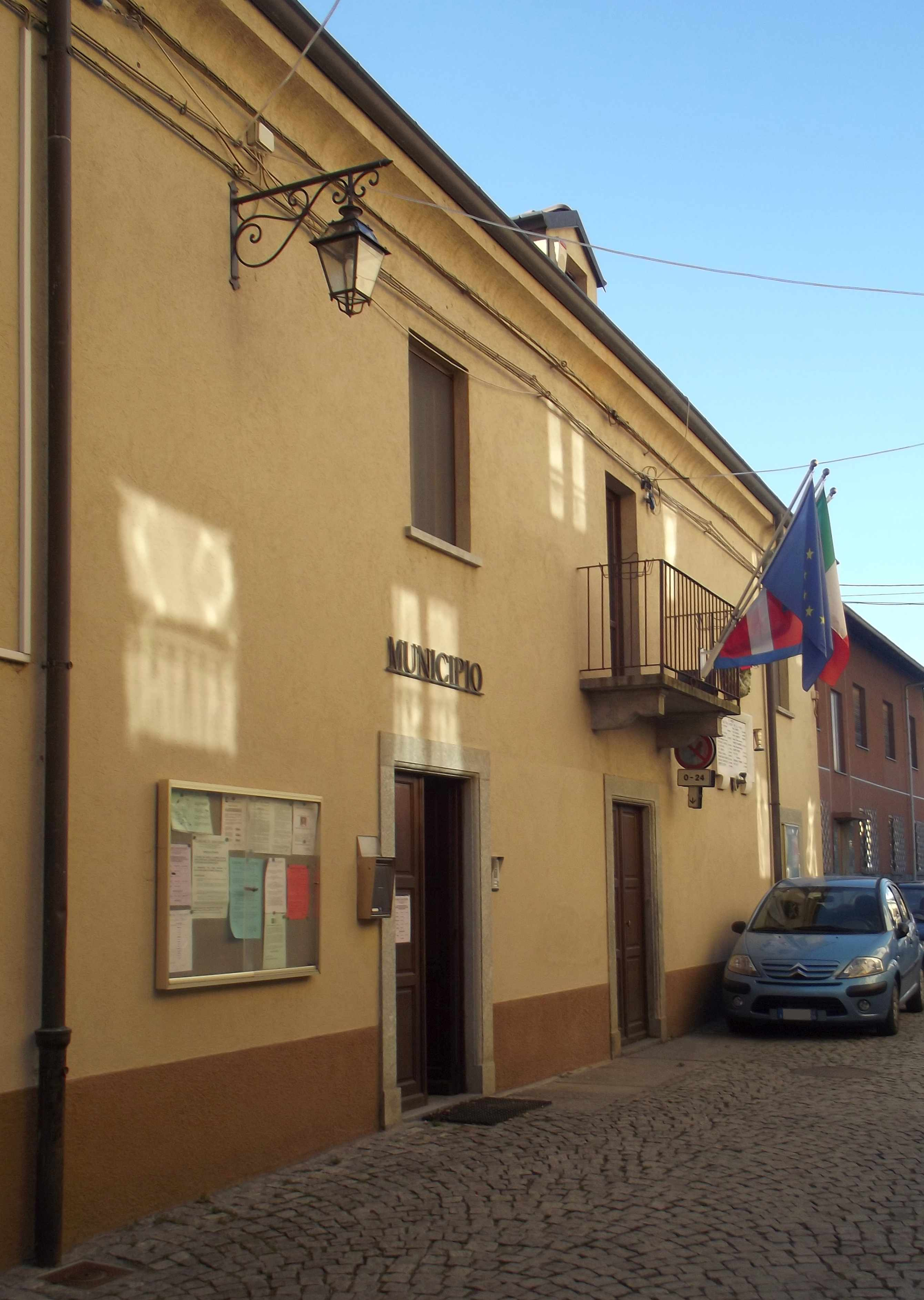 San Didero (TO, Italy): town hall